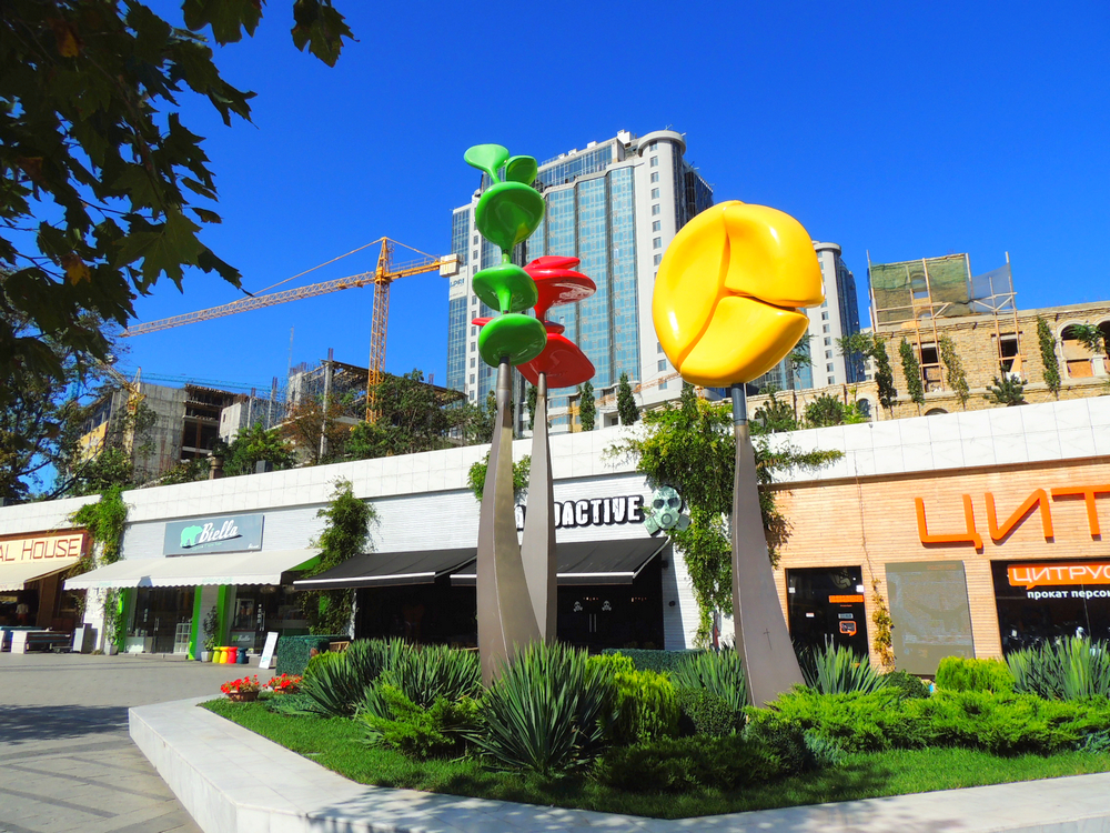 Arcadia, the vivid tourist area